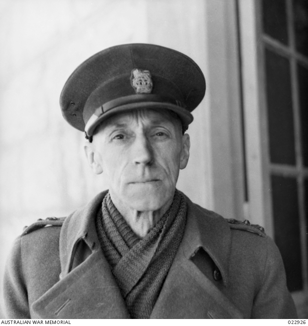 Aley Syria, 31 December 1941, Briagdier W. W. S. Johnston, Deputy Director Medical Services (DDMS) I Corps